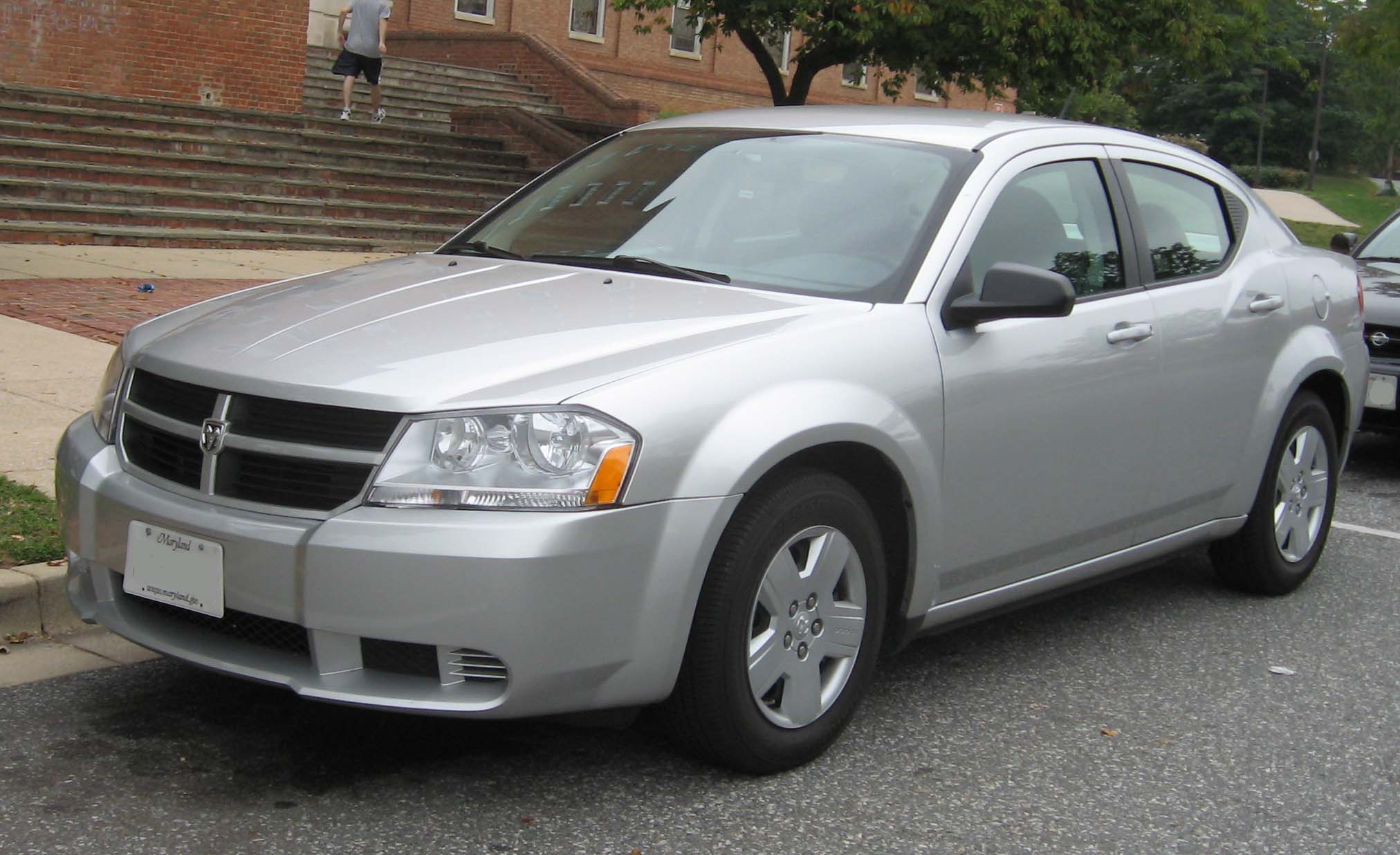 2008 Dodge Avenger SE photographed in College Park, Maryland, USA.